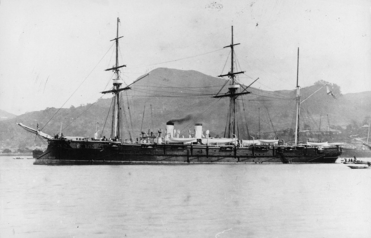 Imperial Russian cruiser Admiral Kornilov.